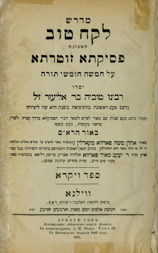 Lekah Tov